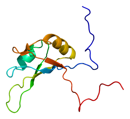 Structure of the NCL protein. Based on PyMOL rendering of PDB 2fc8.